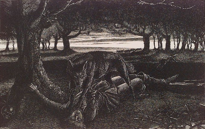 The Werewolves.